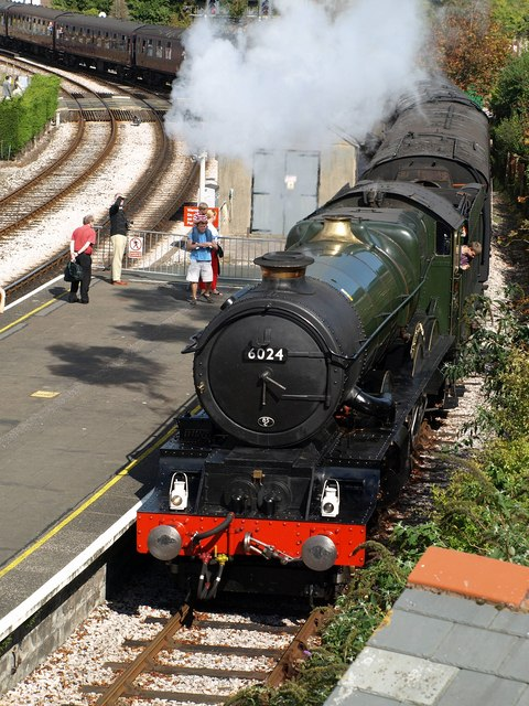 "King Edward I" at Kingswear "King Edward I" 6024 hauls the Torbay Express into its destination from Bristol Temple Meads. The Torbay Express runs each Sunday through the summer, and three locomotives share the journeys.